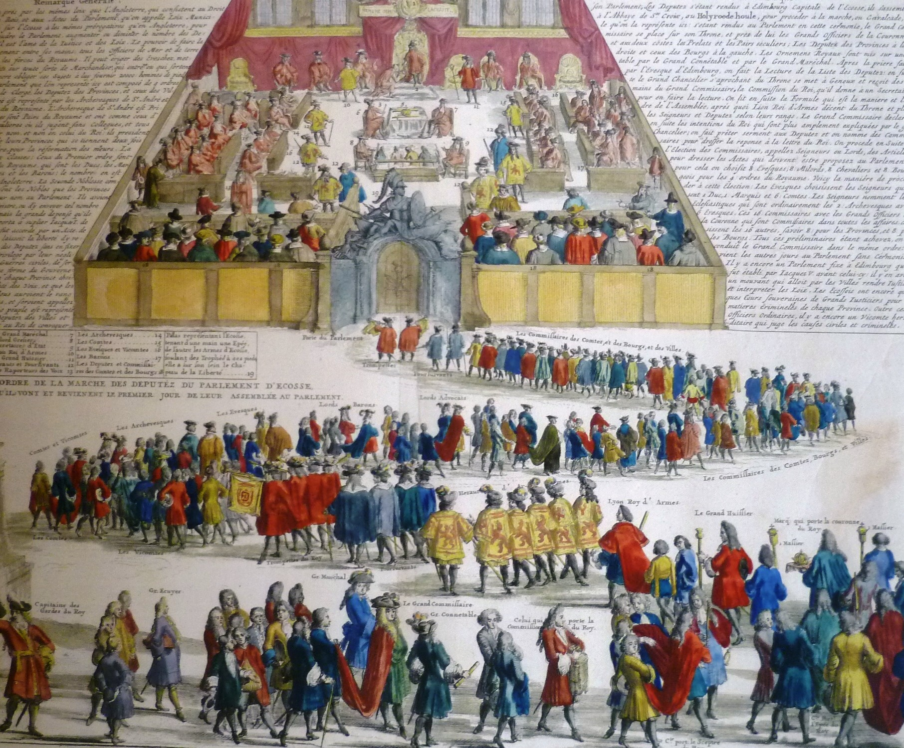 'The Downsitting of the Scottish Parliament' (slightly cropped) from Châtelain and Gueudeville's 'Atlas Historique', 1720. This image is annotated on its description page at Commons.